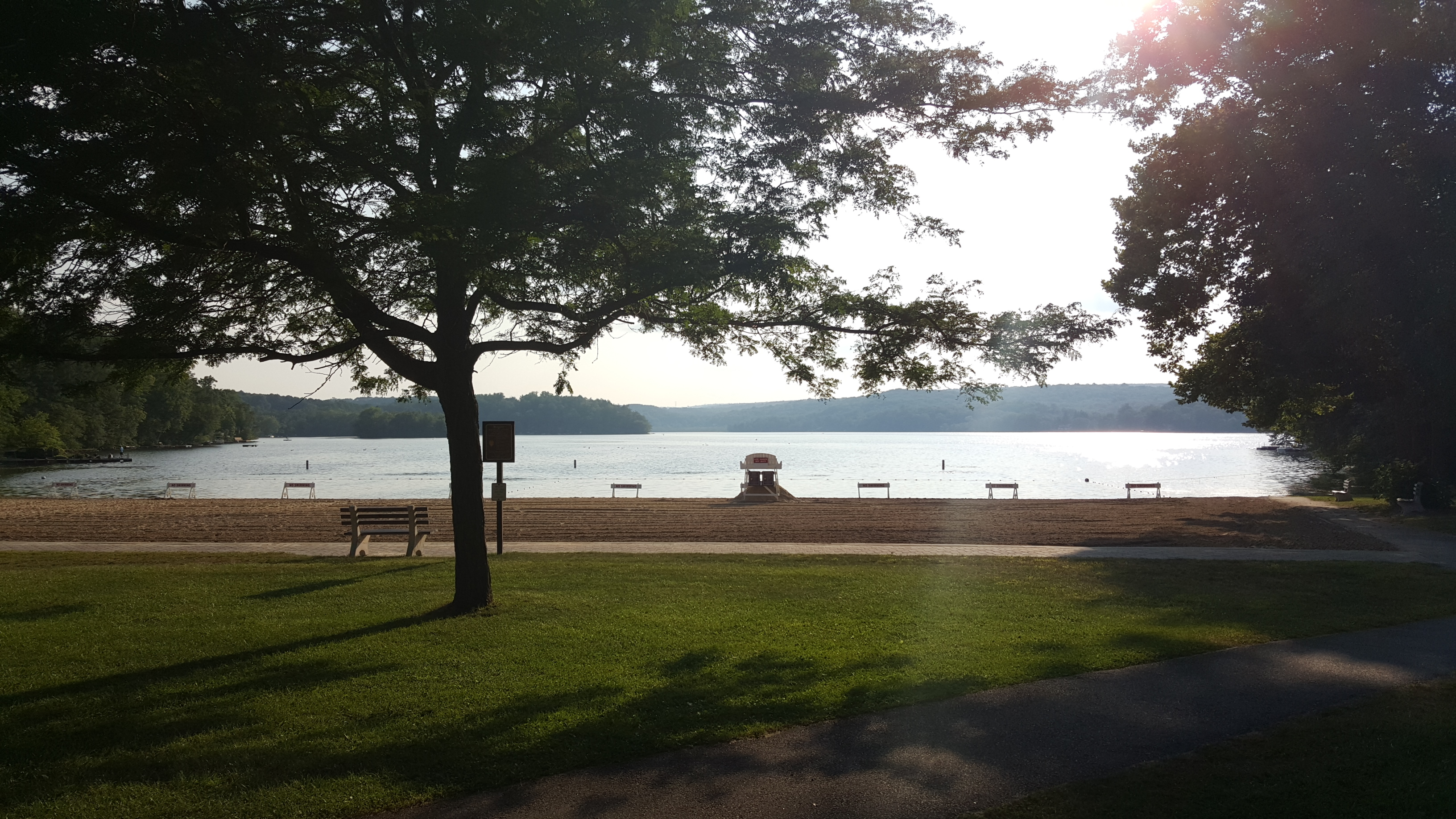 Swartswood Lake seen from the state parks beach